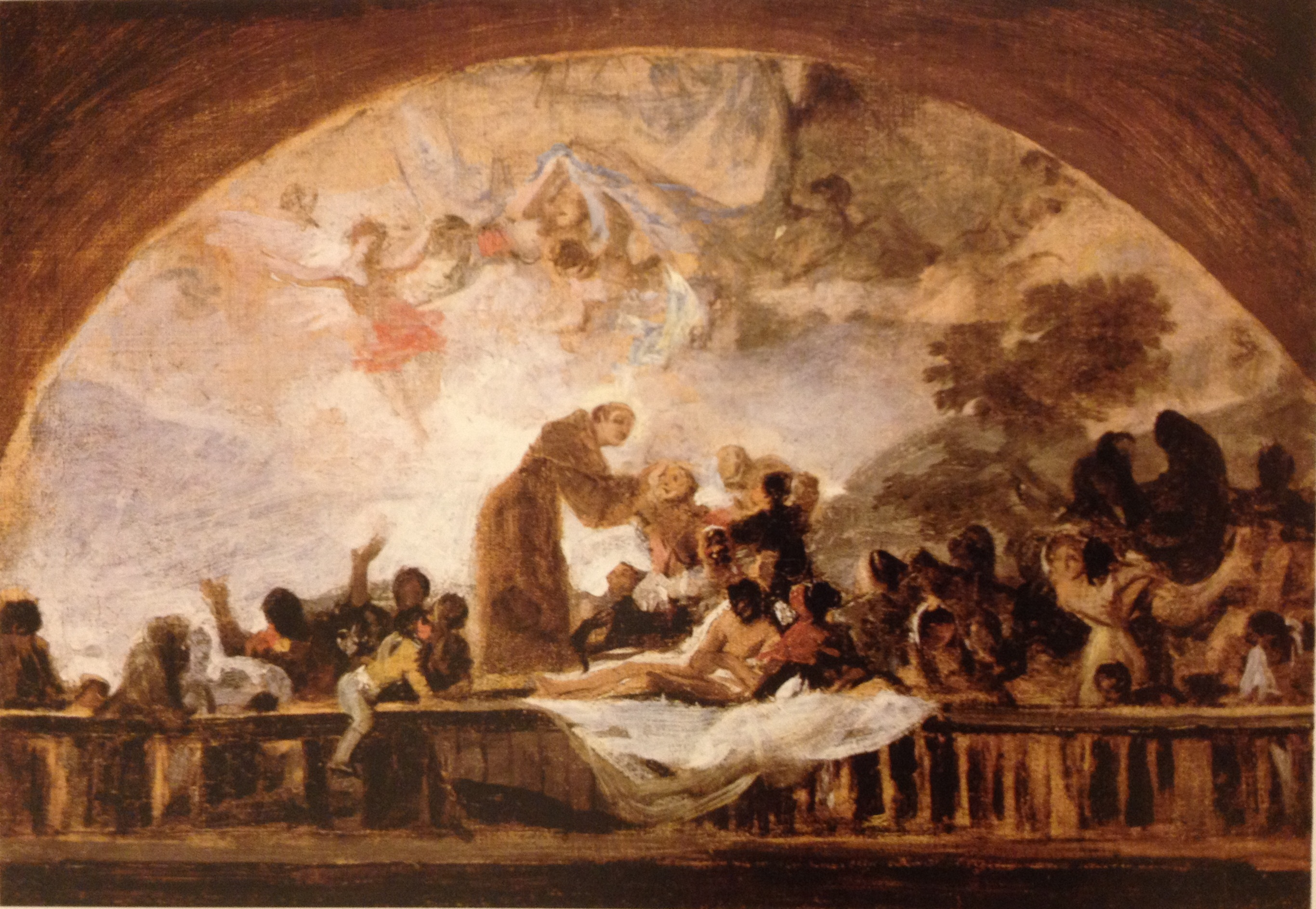 preparatory sketch